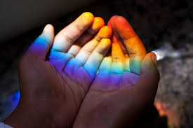 after rainbow i visualized it with a bifocal lens